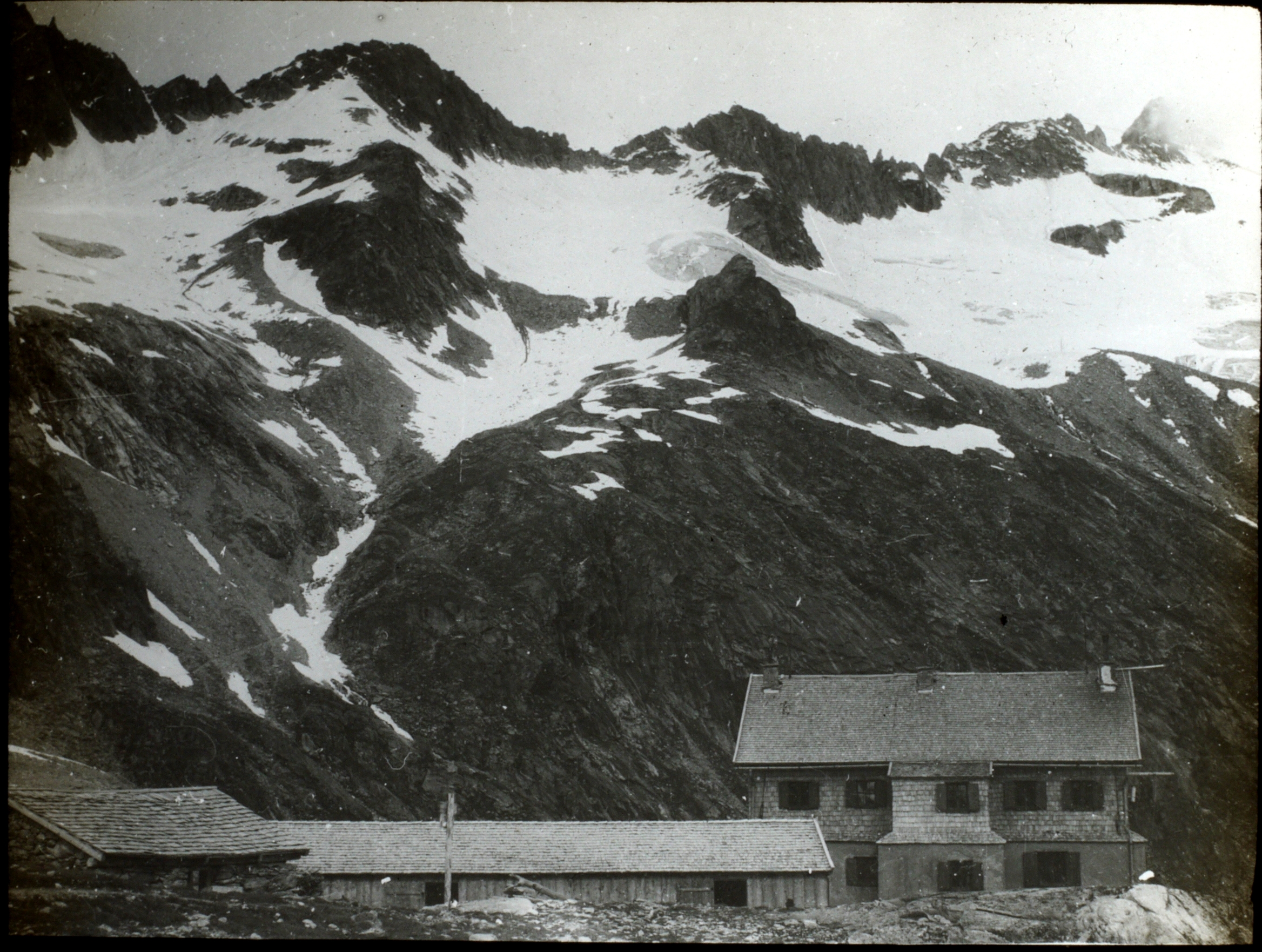 photo by A.E.Hasse, Baildon Yorkshire. Original on 6x6 glass slide diapositive